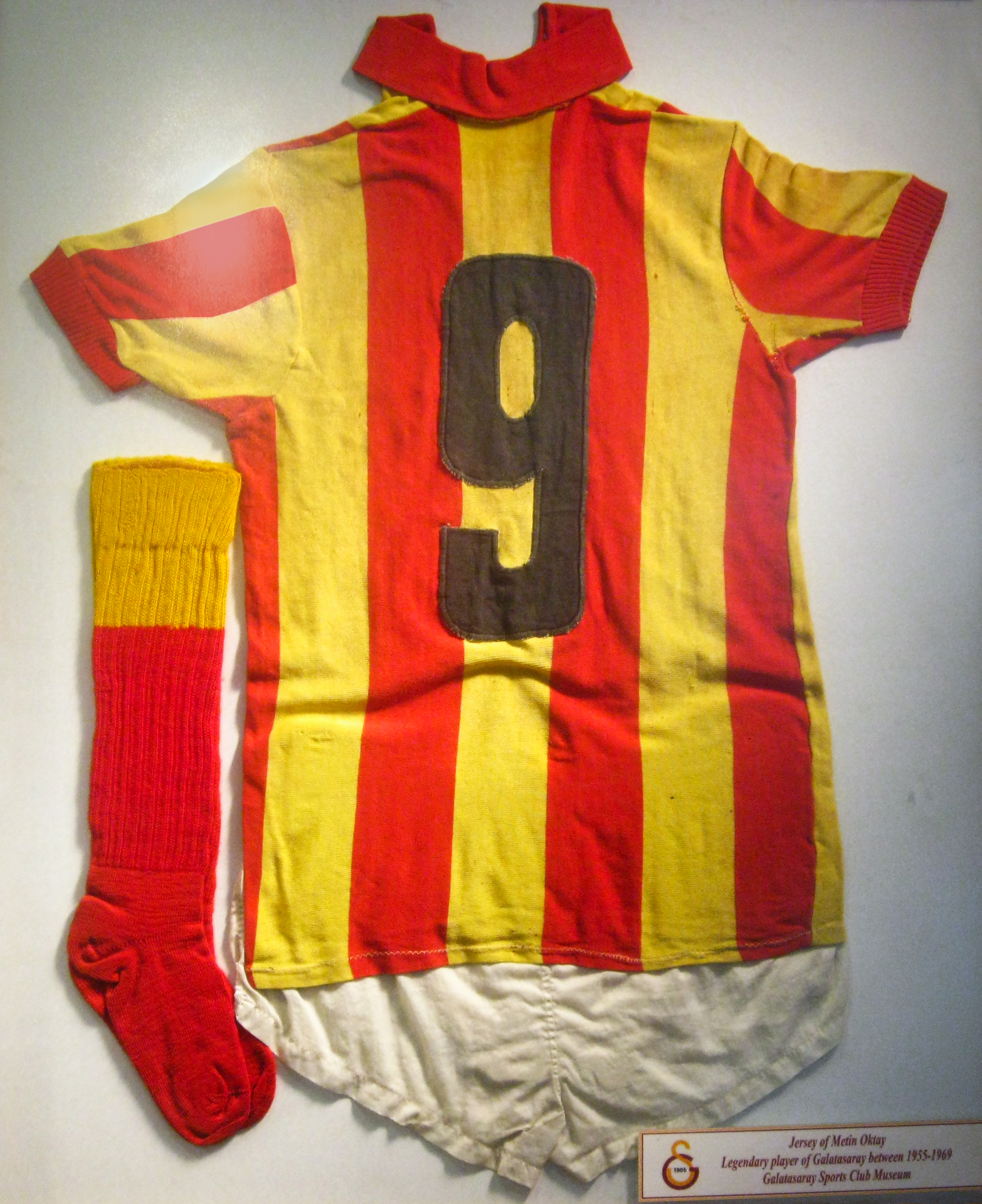 Metin Oktay shirt